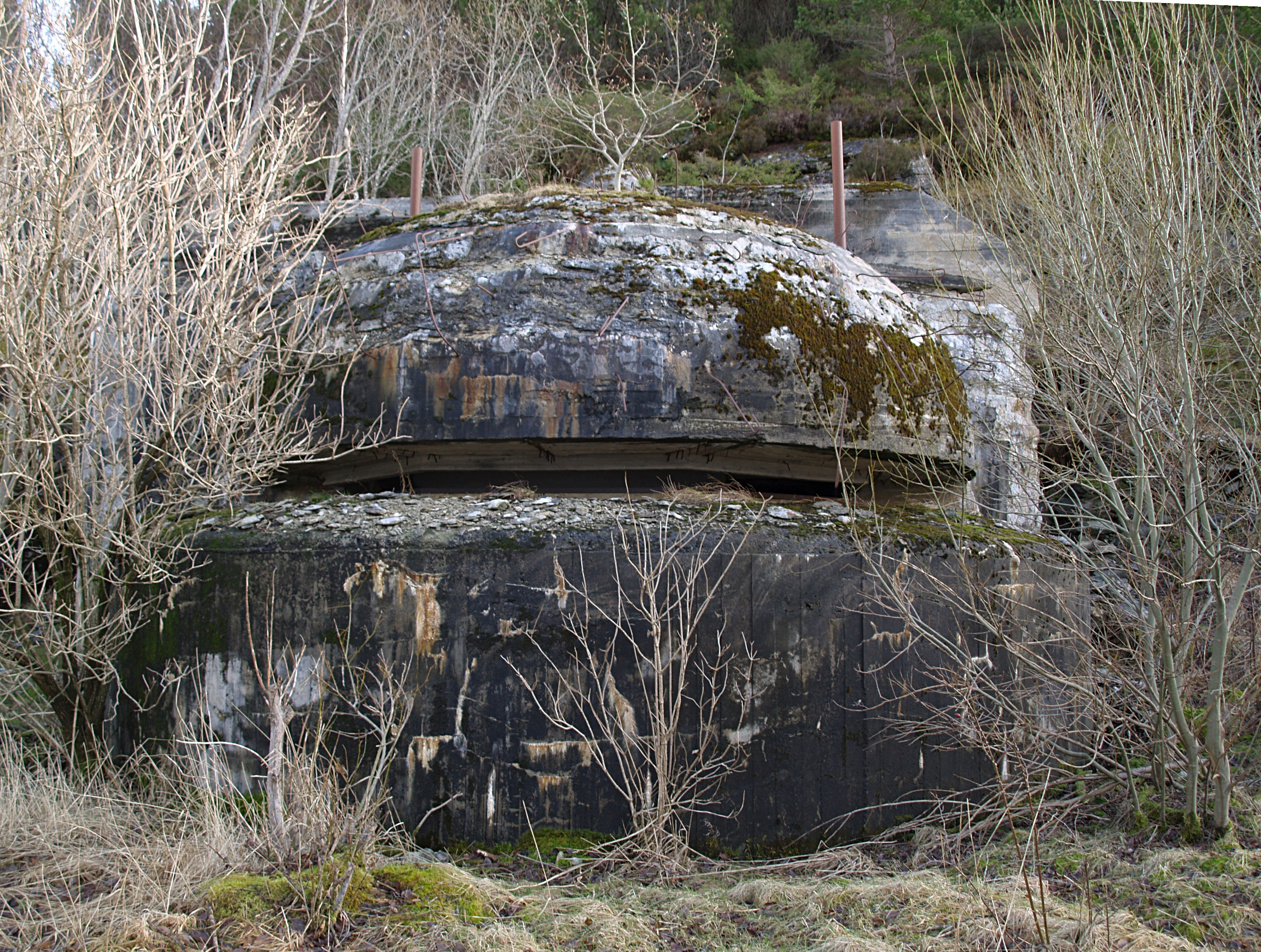 Risenes fort, fortification with the second command site. The fort is located at the farm Risenes at Sygnefest in Gulen municipality, Norway.